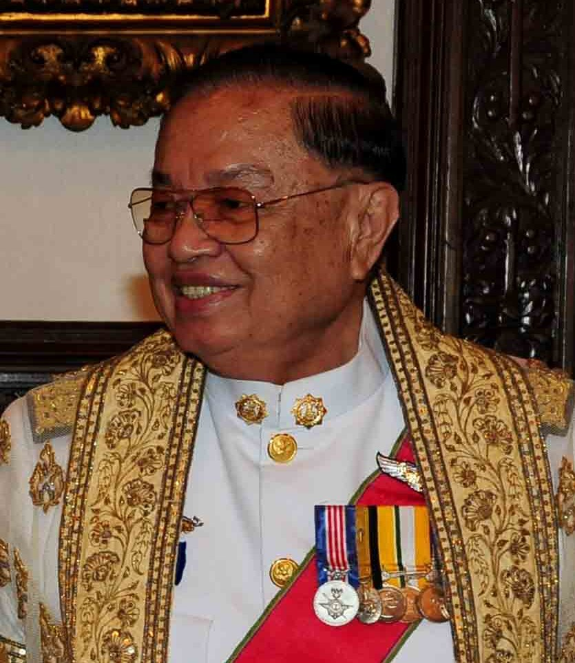 Chai Chidchob, speaker of the Thai parliament.